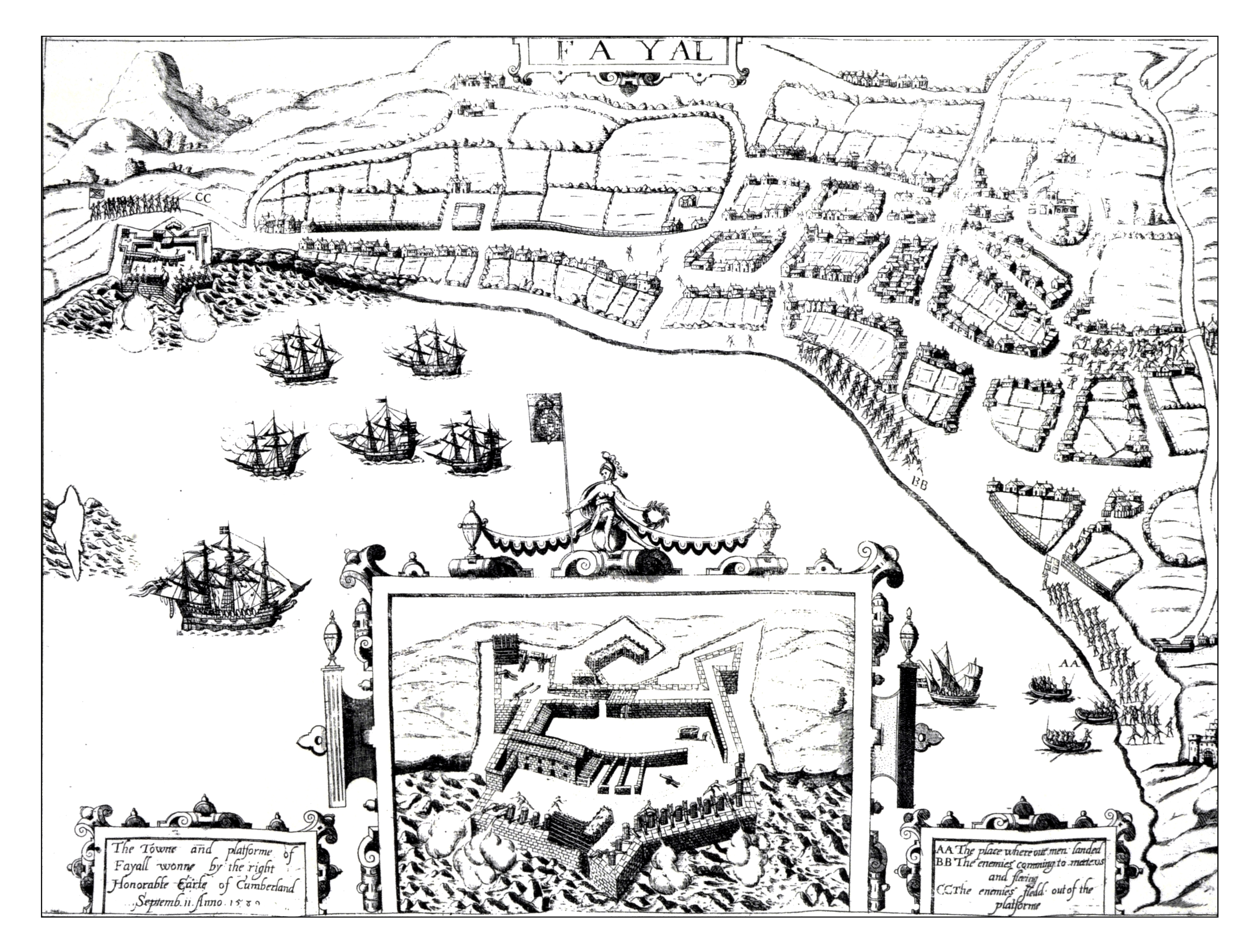 "The Towne and platforme of Fayall wonne by the right [of the] Honorable Earle of Cumberland Septembrii Anno 1589". Gravura, Edward Wright (Capt.), s.d. (séc. XVI). No detalhe o assalto ao Forte de Santa Cruz.